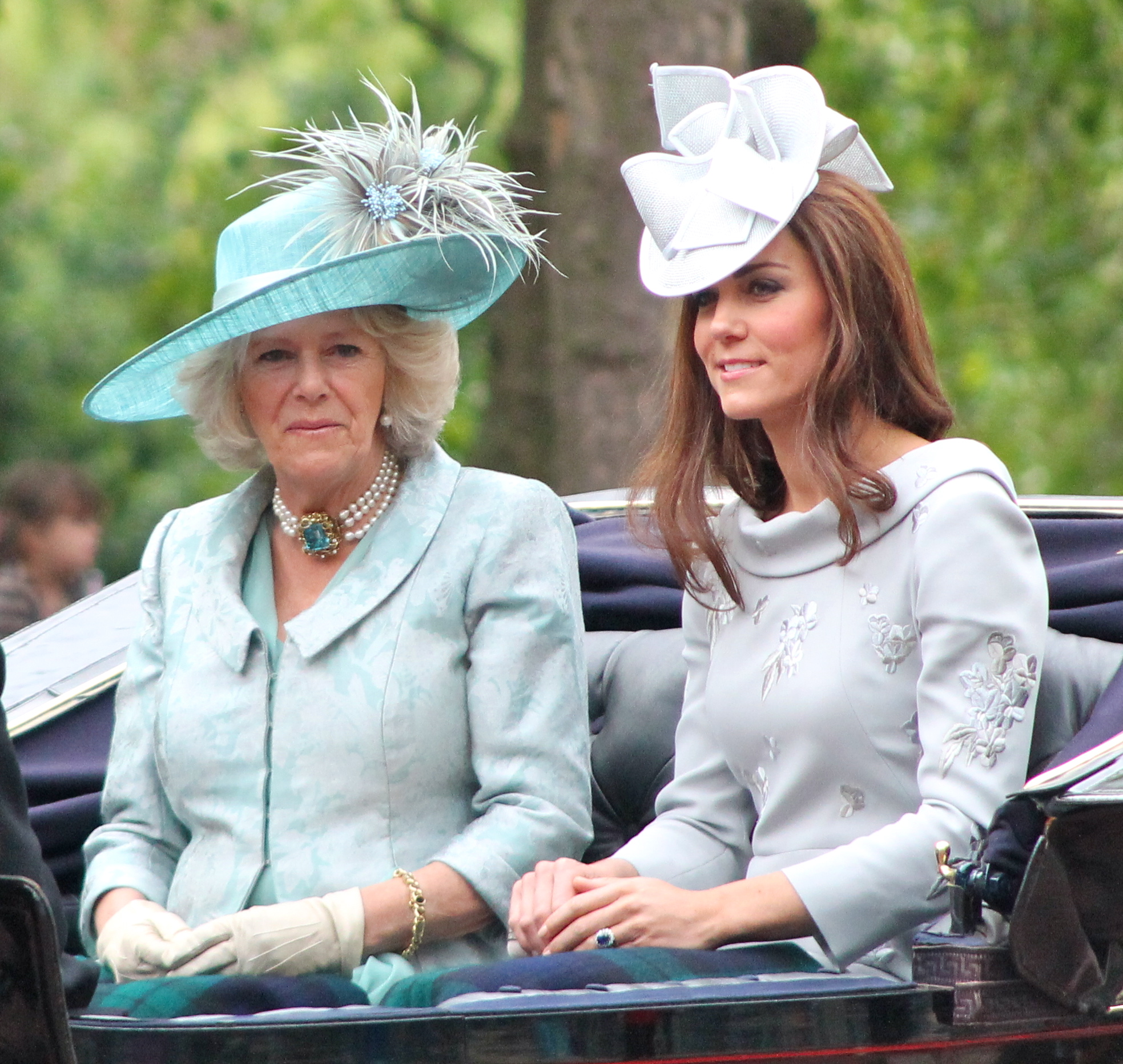 Duchess of Cornwall and Duchess of Cambridge at Trooping the Colour, London on 17 June 2012